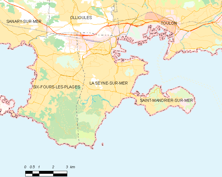 Map of French municipality La Seyne-sur-Mer